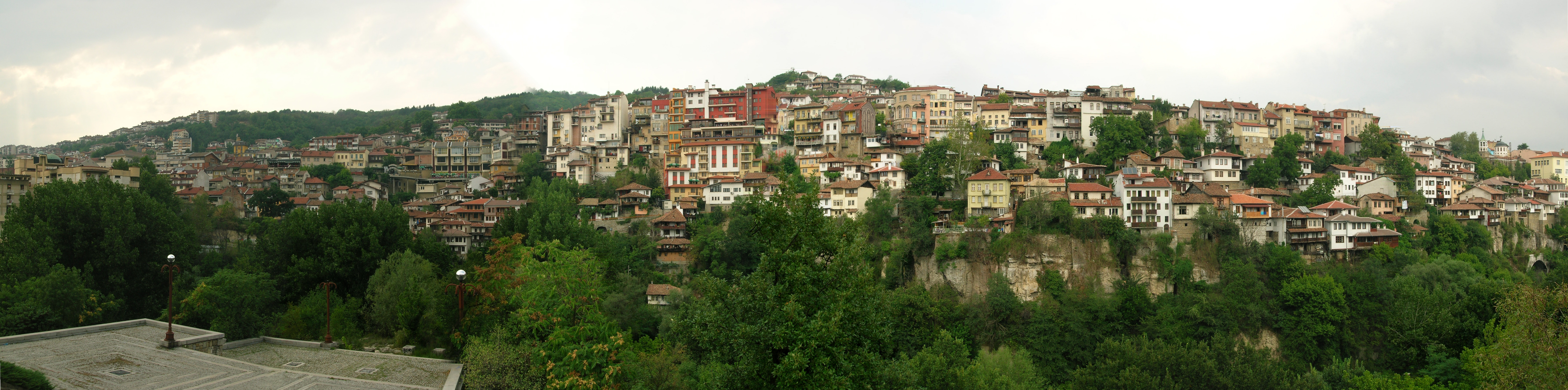 Panorama of Veliko Tarnovo (Bulgaria)